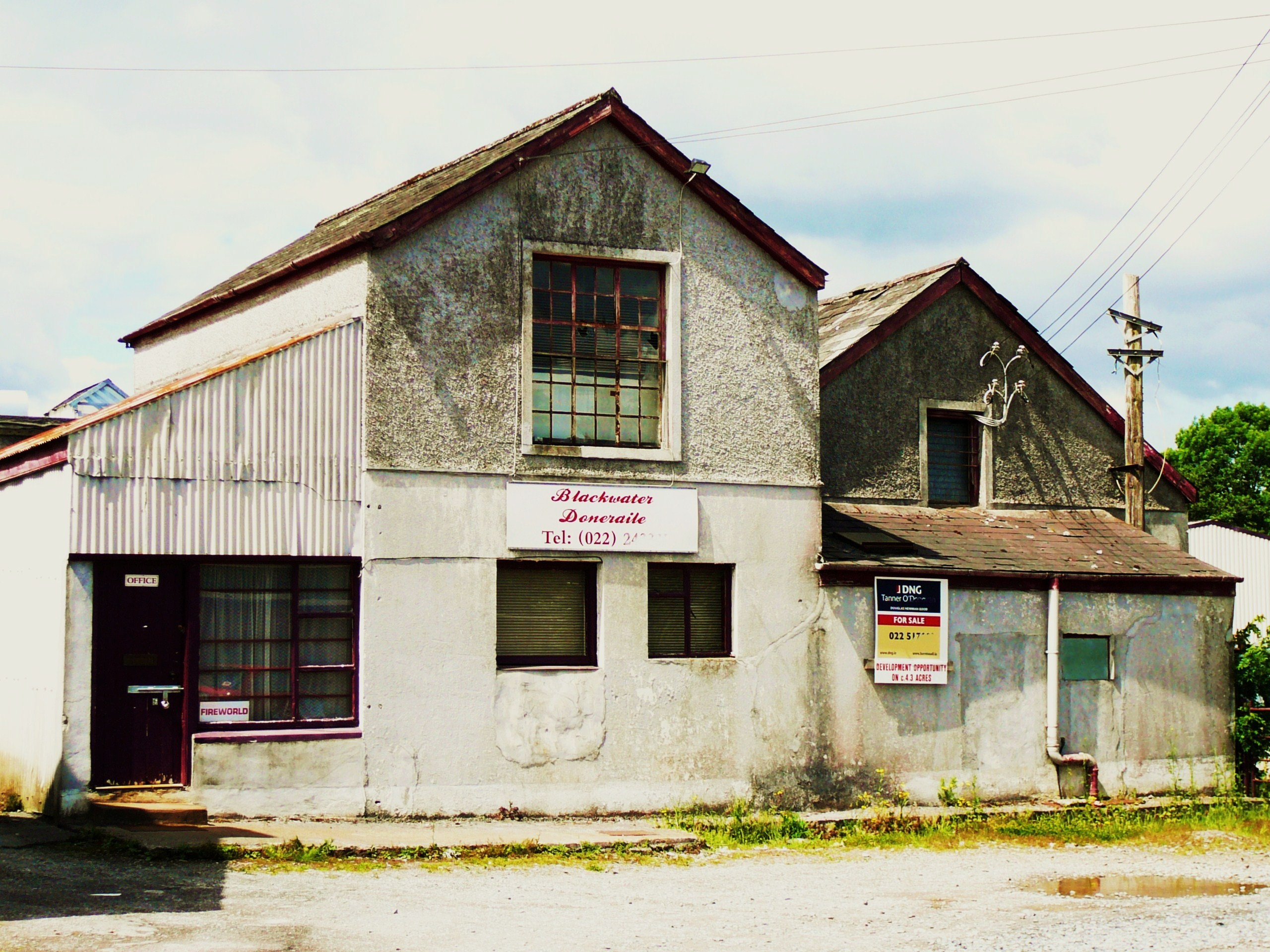 Image of the first Irish Agricultural Dairy Cooperative founded by Horace Plunkett in 1889 with the support of Canon Sheehan, in Doneraile. The building is much the same as it was then, and stands just off to the rear of Canon Sheehan's house.